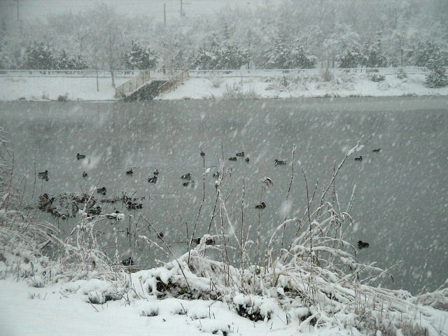 Ton'neusu Marsh. Ainosato 4 jō 8chōme, Kita (North) ward, Sapporo, Hokkaidō prefecture, Japan.